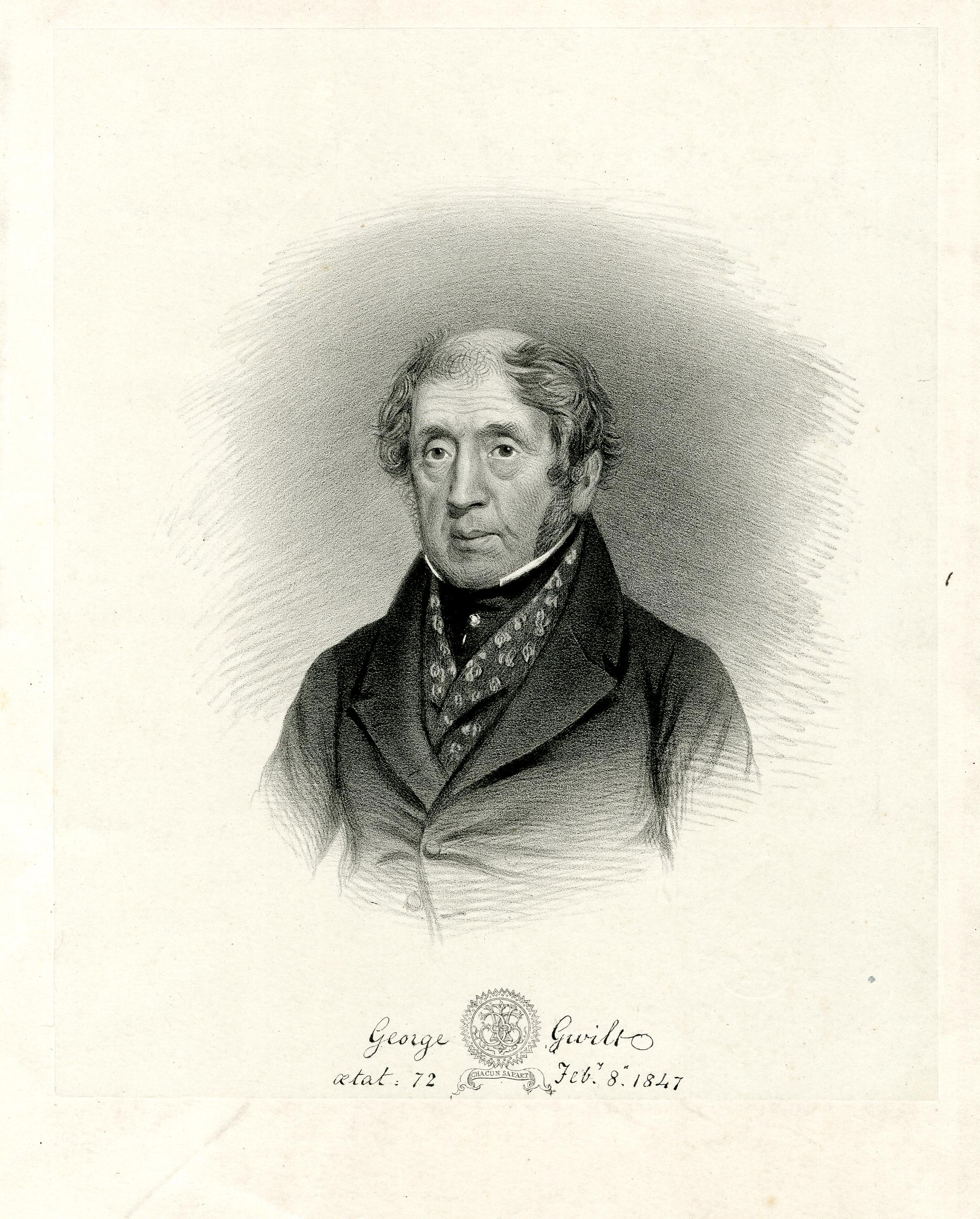 Portrait of George Gwilt, nearly half-length to left, arms below. 1847 Lithograph on chine collé